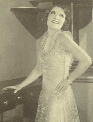 Publicity photo of Bernice Claire for Argentinean Magazine.